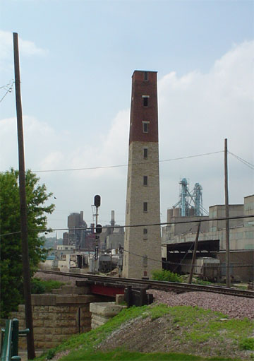 This is a photo of the Dubuque Shot Tower in Dubuque. It is one of the few shot towers left in the nation. This photo was taken by me in May of 2004.